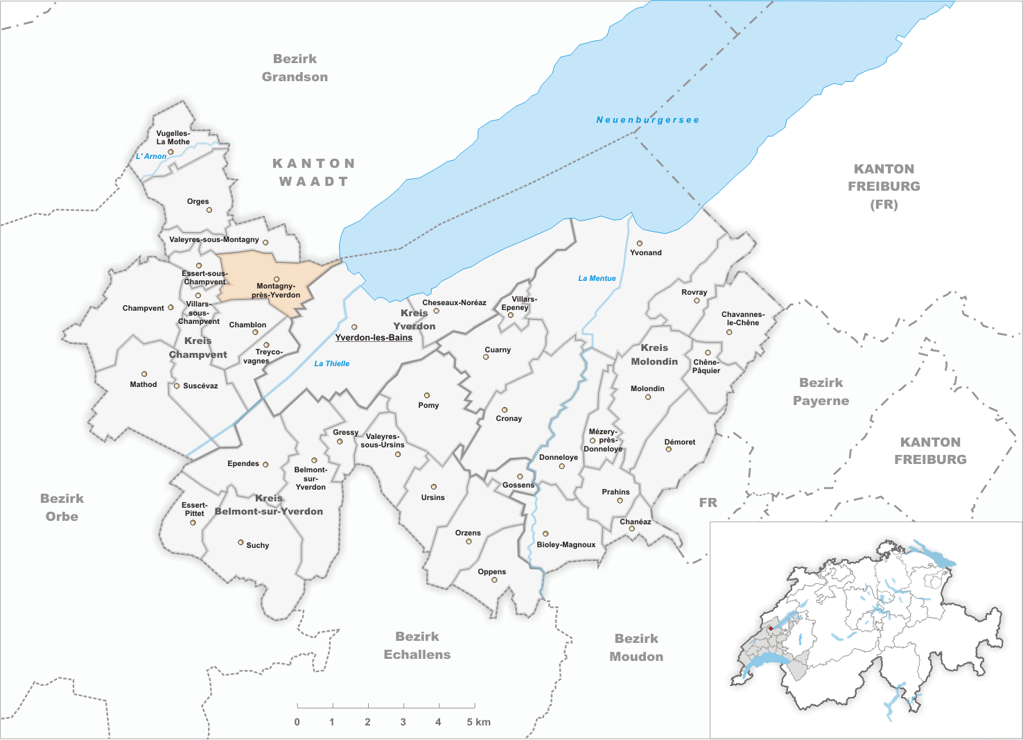 Municipality Montagny-près-Yverdon